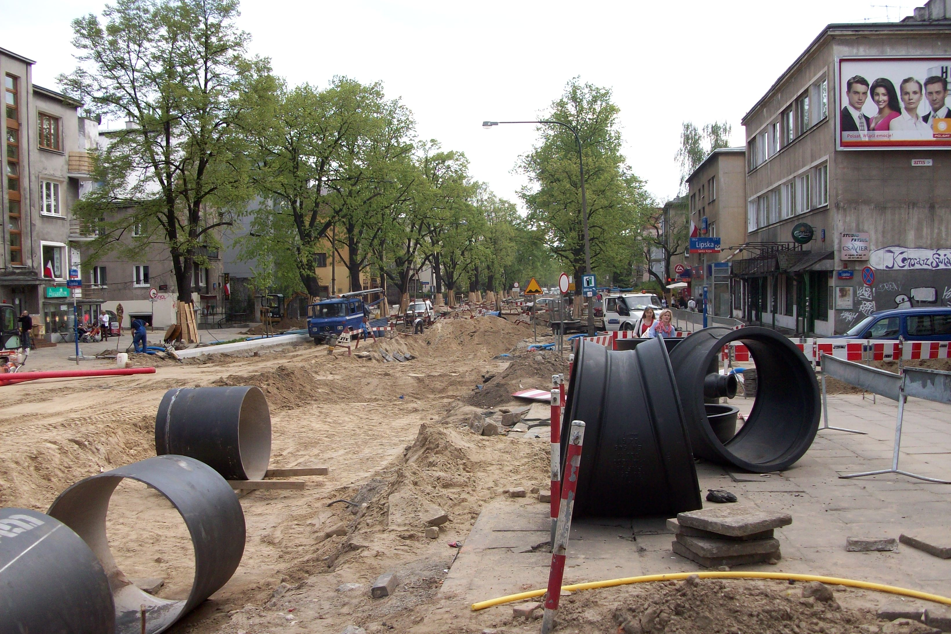 Francuska Street during the general reconstruction, April 2010.